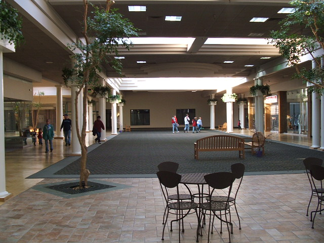 A current view of Eastgate Mall in Chattanooga. Jason Trew Photo